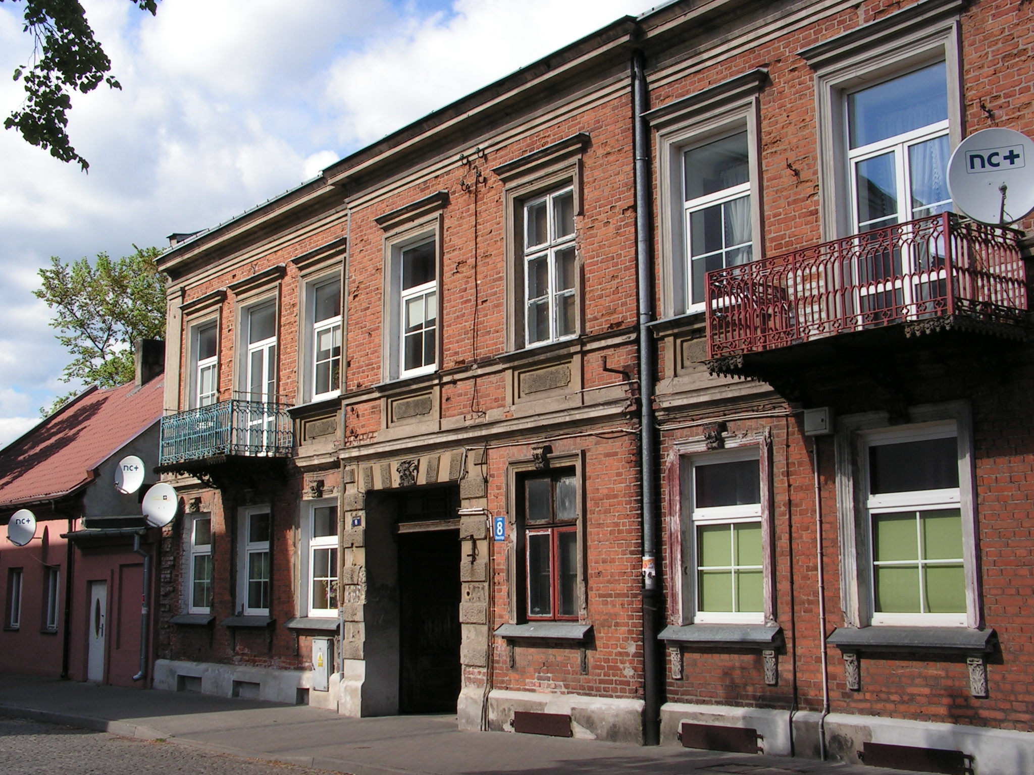 Tenement at 8 Słowackiego Street in Włocławek, built about 1900 year. Here lived among others teacher and social activist Feliksa Szałwińska. Her flat was place of meeting for local intelligentsia.